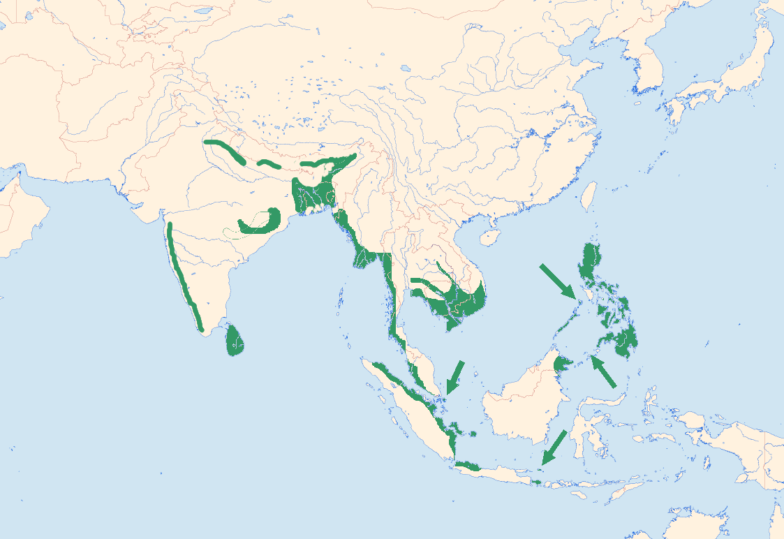 Combined range map of Greater Flameback Chrysocolaptes guttacristatus, Buff-spotted Flameback Chrysocolaptes lucidus, Luzon Flameback Chrysocolaptes haematribon, Yellow-faced Flameback Chrysocolaptes xanthocephalus, Red-headed Flameback Chrysocolaptes erythrocephalus, Javan Flameback Chrysocolaptes strictus, and Crimson-backed Flameback Chrysocolaptes stricklandi (formerly Chrysocolaptes lucidus sensu lato).